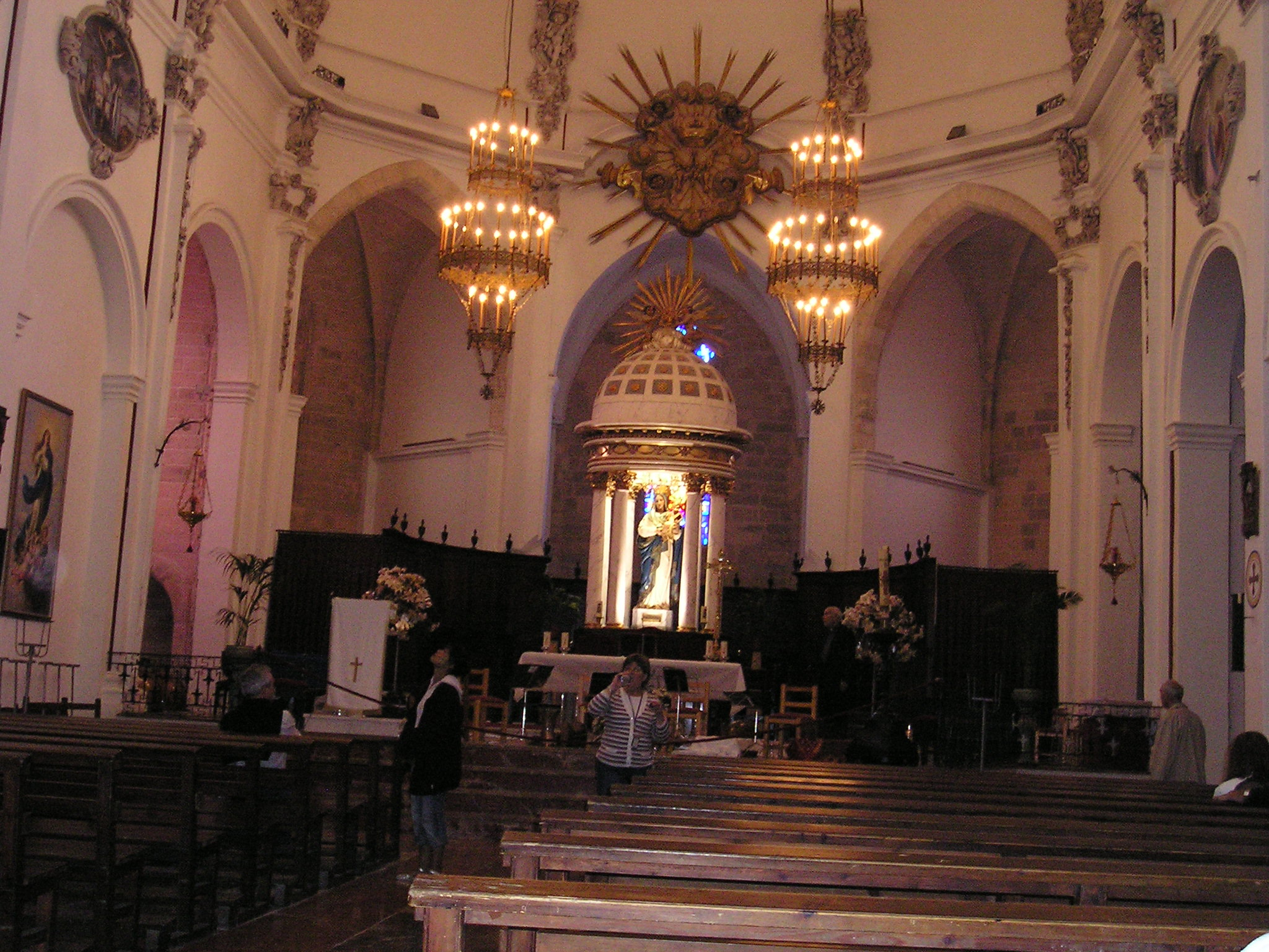 View of the inner of Ibiza-Town Cathedral - with altar Unknown